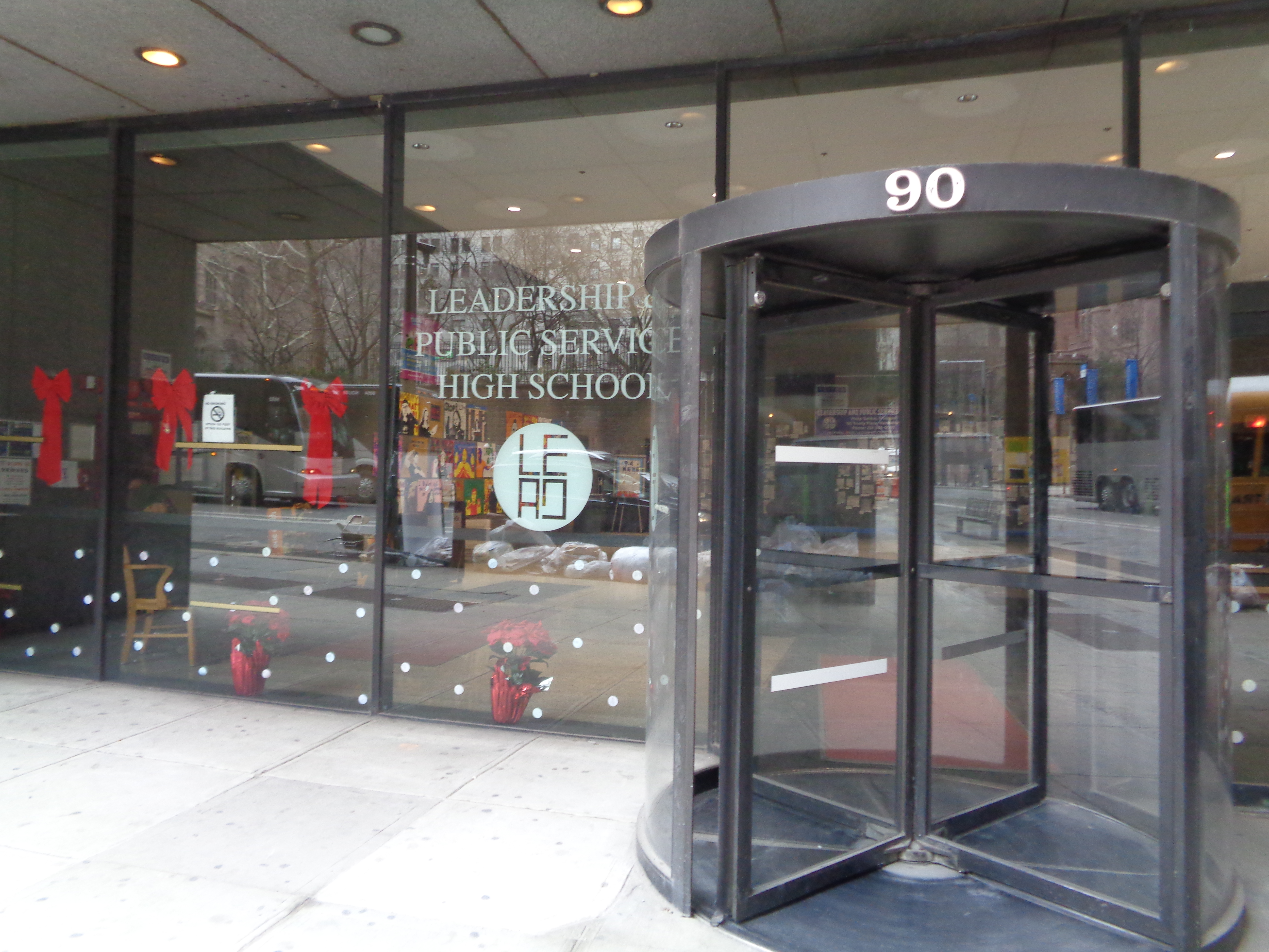 The entrance to Leadership & Public Service High School at Trinity Place and Thames Street (90 Trinity Place) in the Financial District, Manhattan. The building is a former NYU Stern building.